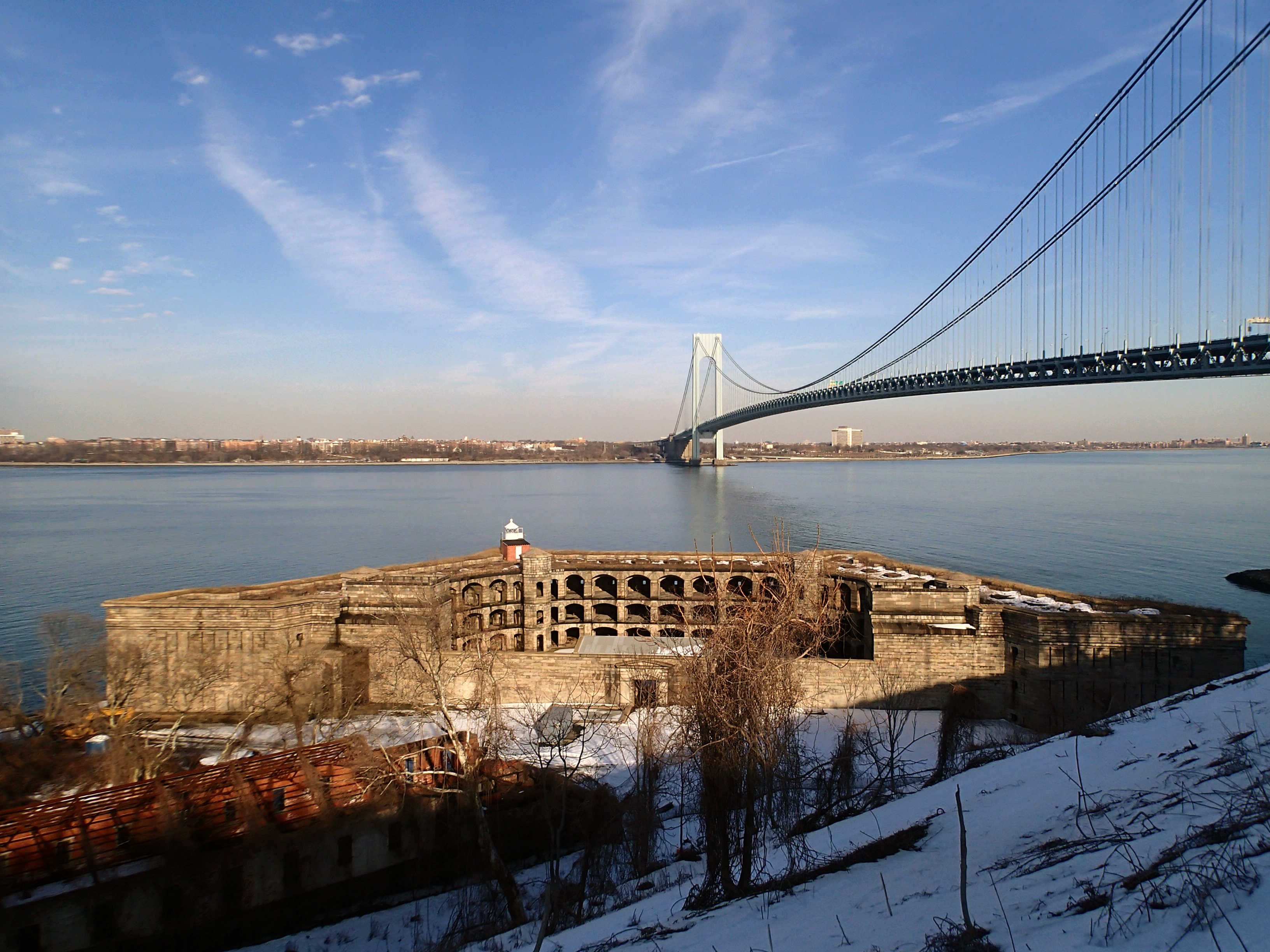 Battery Weed is a three-tiered 19th century fortification guarding the Narrows, the main approach from the Atlantic Ocean to New York City.